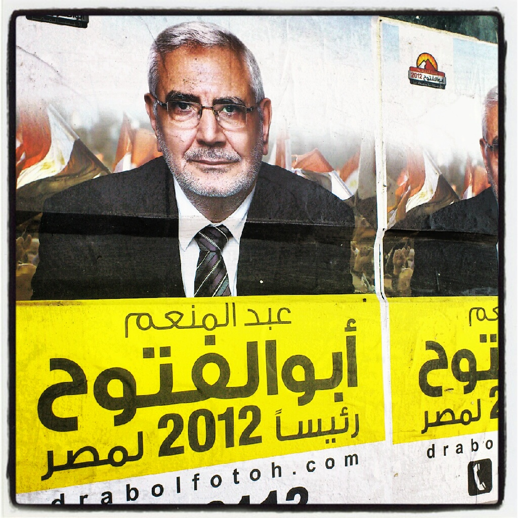 Egypt presidential elections posters in Egyptian presidential election 2012